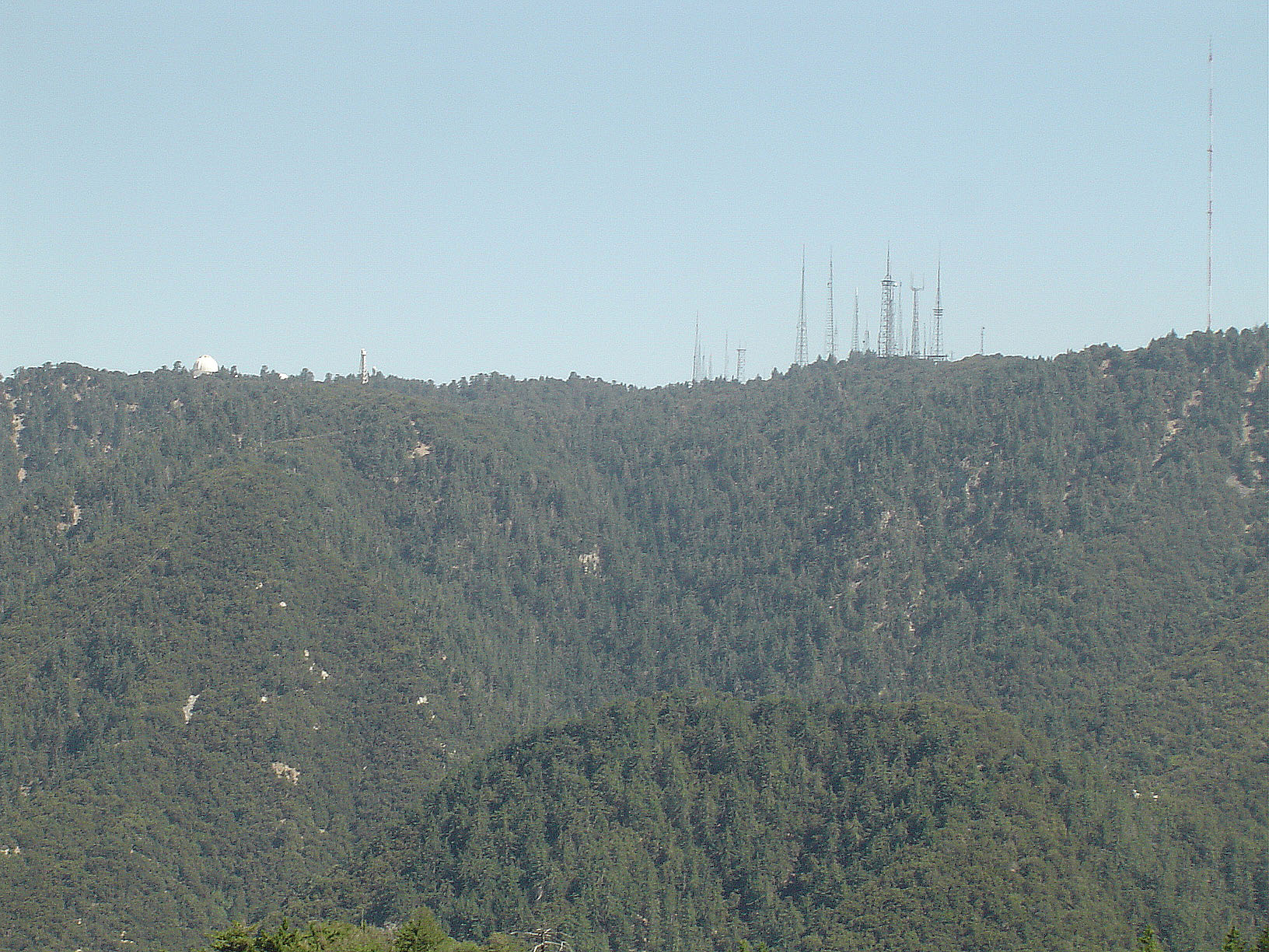 Photographed and uploaded by user:Geographer. Mount Wilson as seen from Angeles Crest Highway, June 25, 2005